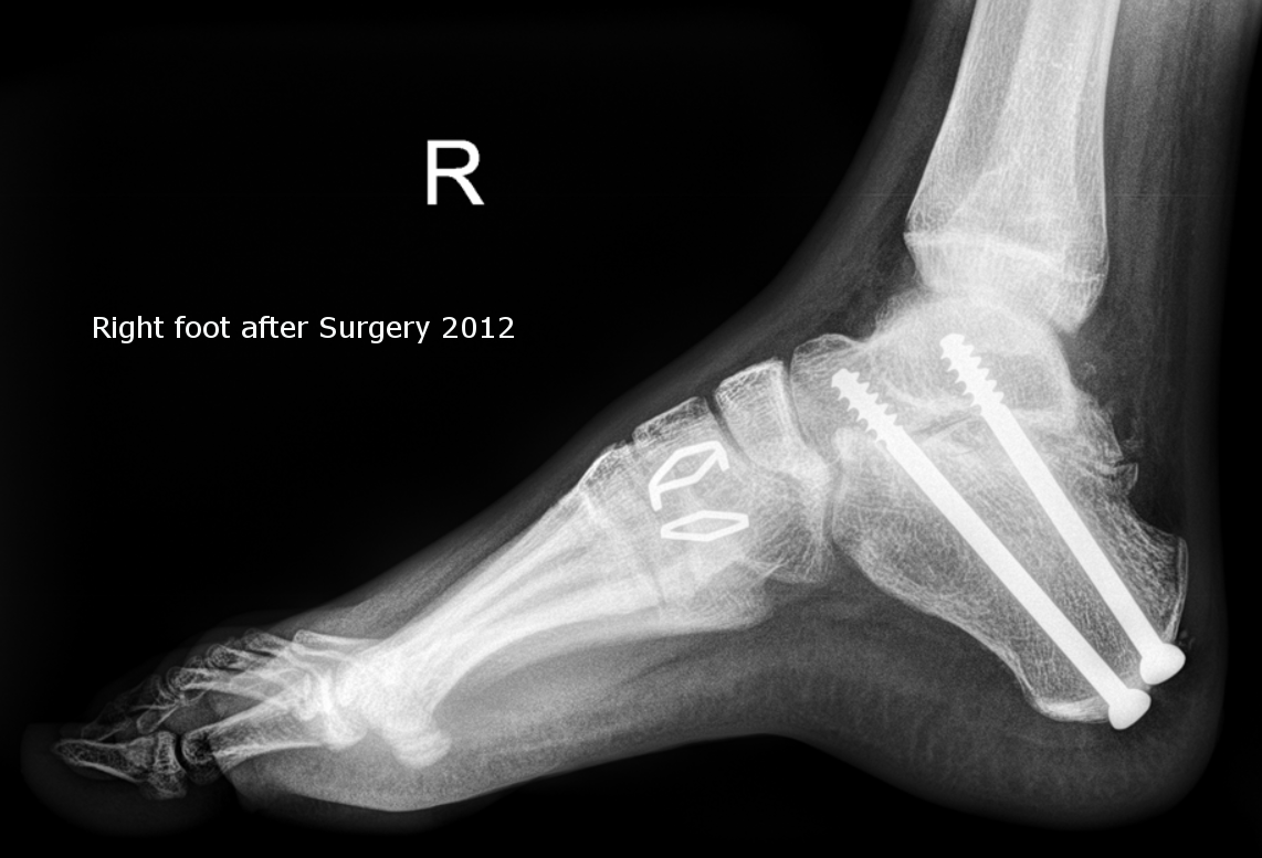 After my OP i got radiographed again and this is the result of the doctors work. He removed the additional bone and fixed my foot with 2 big screws and 2 brackets. (Nach der OP wurde ich wieder geröntgt. Der Arzt hat meinen Fuß fixiert und das untere Sprunggelenk versteift mit 2 Klammern und 2 Schrauben)